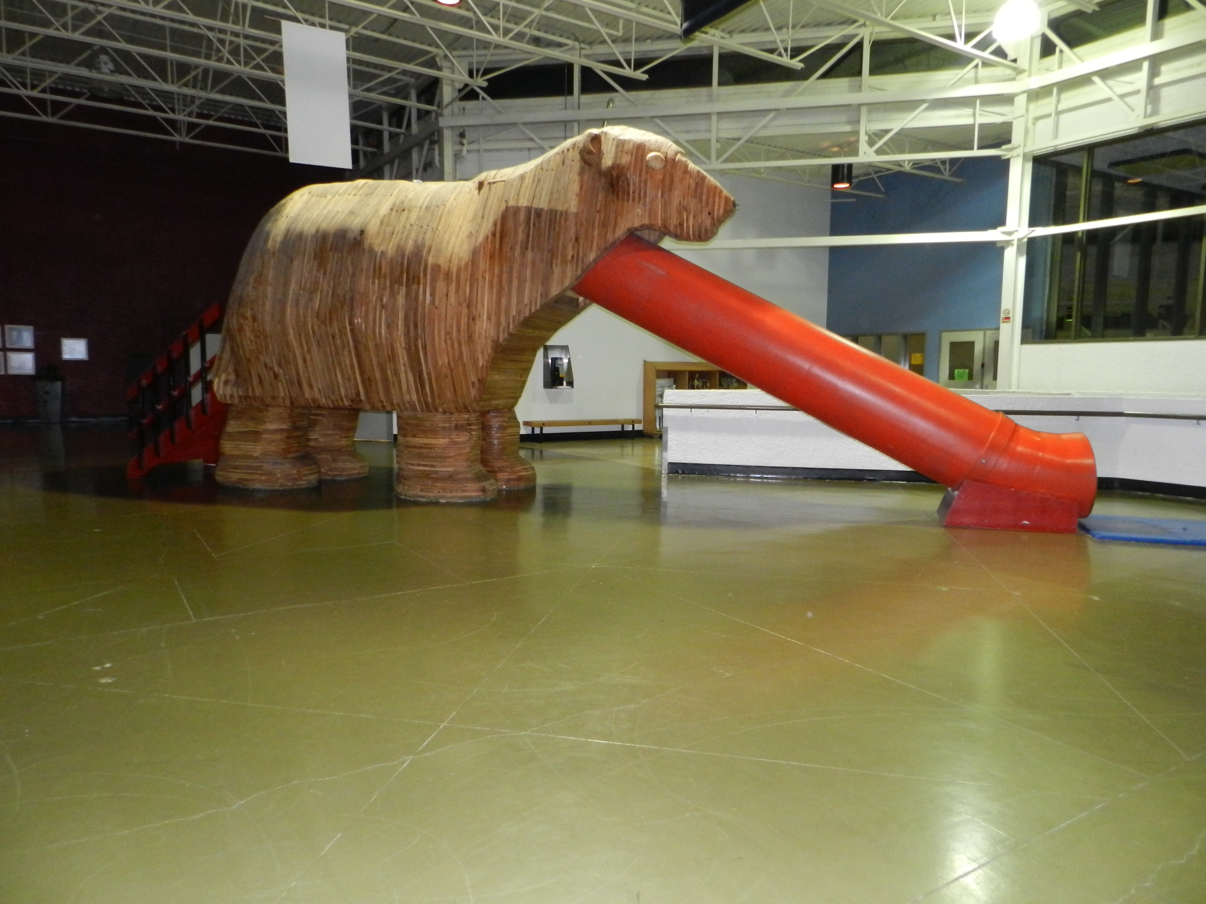 Slide at the Town Centre Complex